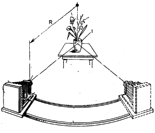 Съёмка трёхмерного изображения с помощью кодирующего растра.